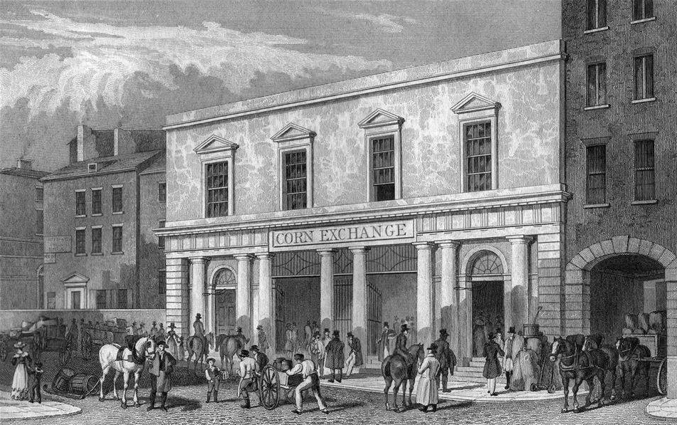 1827 engraving of the Liverpool Corn Exchange in Brunswick Street by G & C Pyne, engraved by Thomas Dixon.